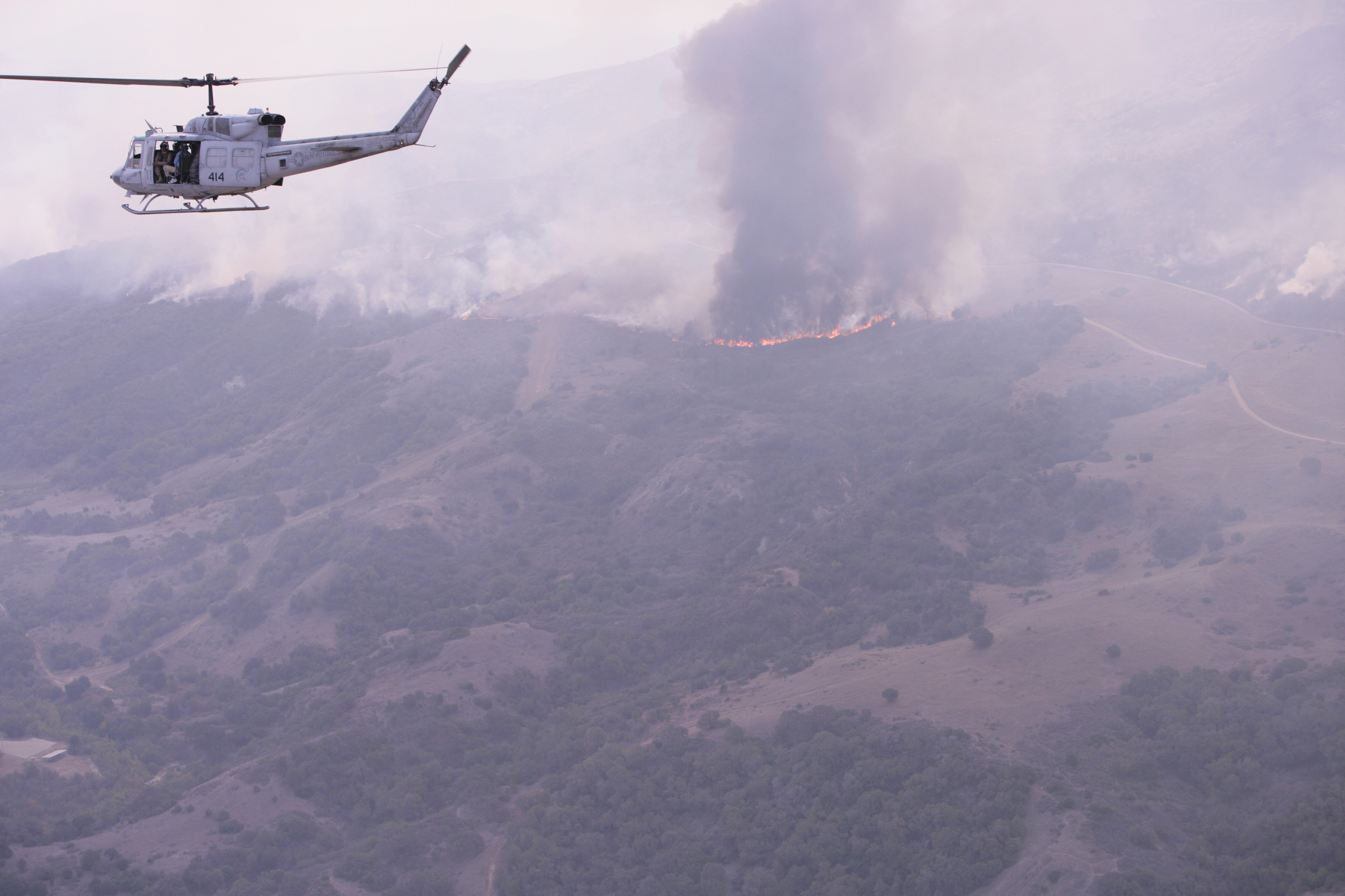 U.S. Marines escort California Rep. Bill Brady to view the damages caused by wildfires outside of Camp Pendleton, Calif., Oct. 24, 2007. Command Shown: 1ST MARINE DIVISION